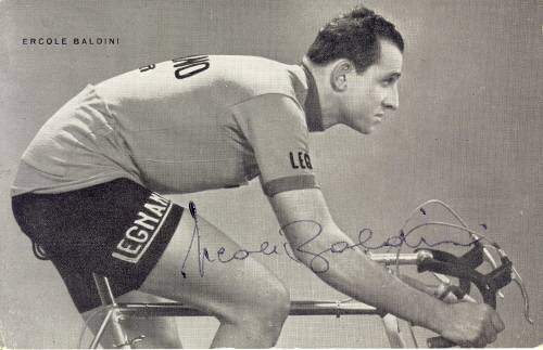 Italian profesionnal cyclist